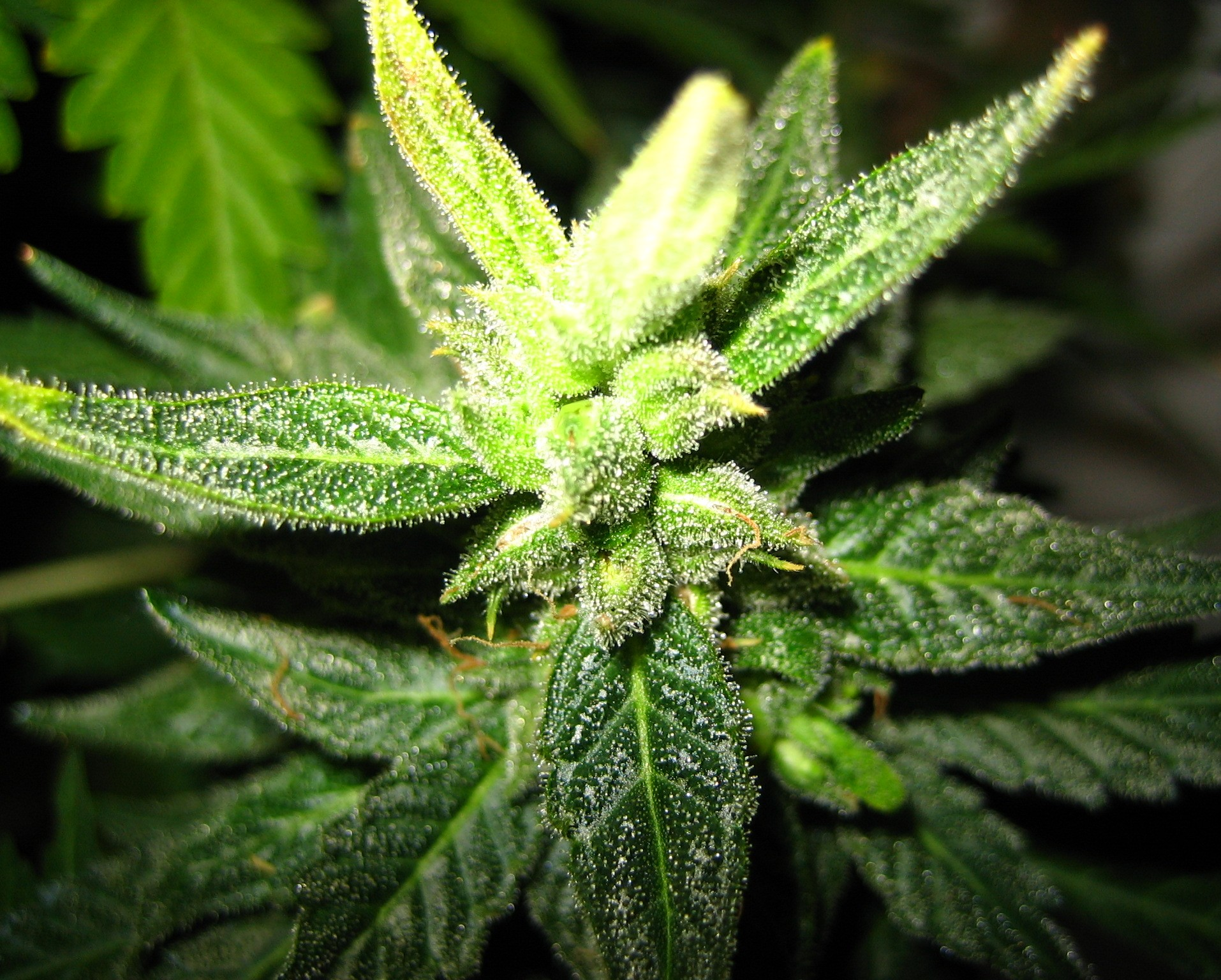 Pollinated hemp flowers. Erik Fenderson, 2006-01-01.